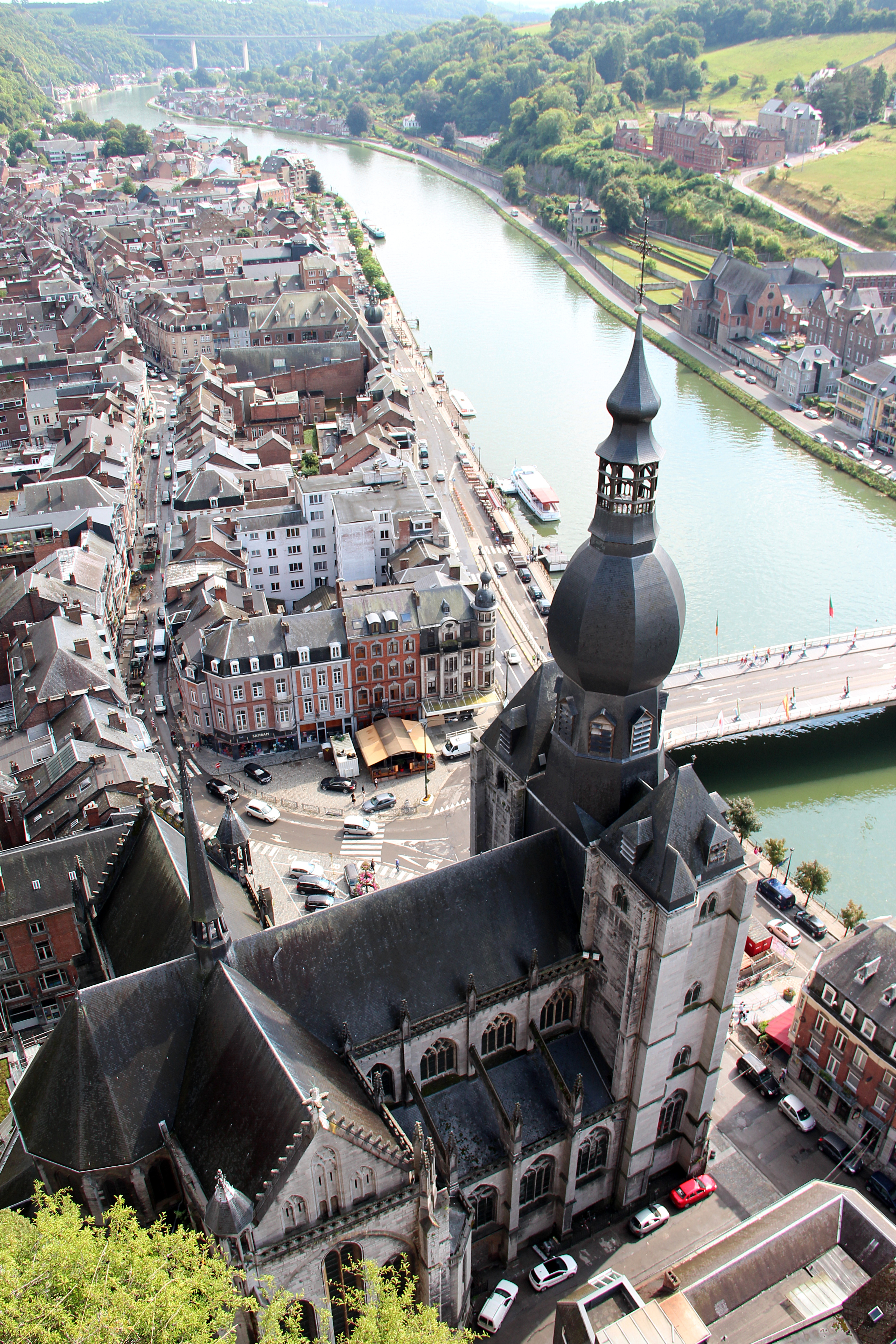 Dinant (Belgium), the collegiate church of Notre-Dame de l'Assomption (XIII-XIVth centuries) and the Meuse river.